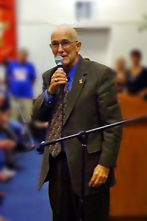 Ray McGovern